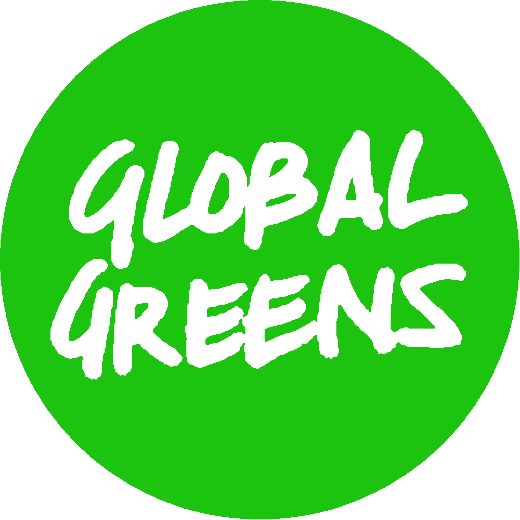 Logo of the Global Greens